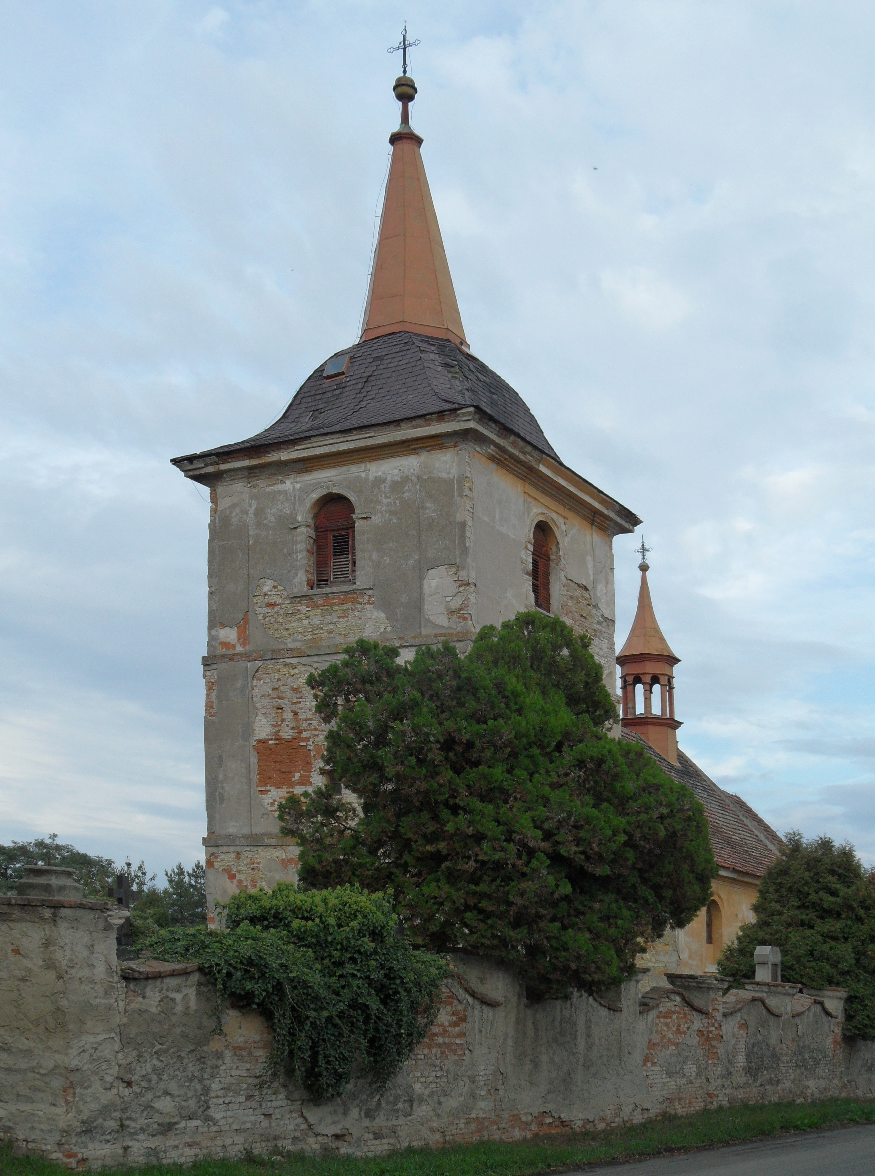 Bošín (Křinec) I. Church of the Assumption of the Virgin Mary, Nymburk District, the Czech Republic.